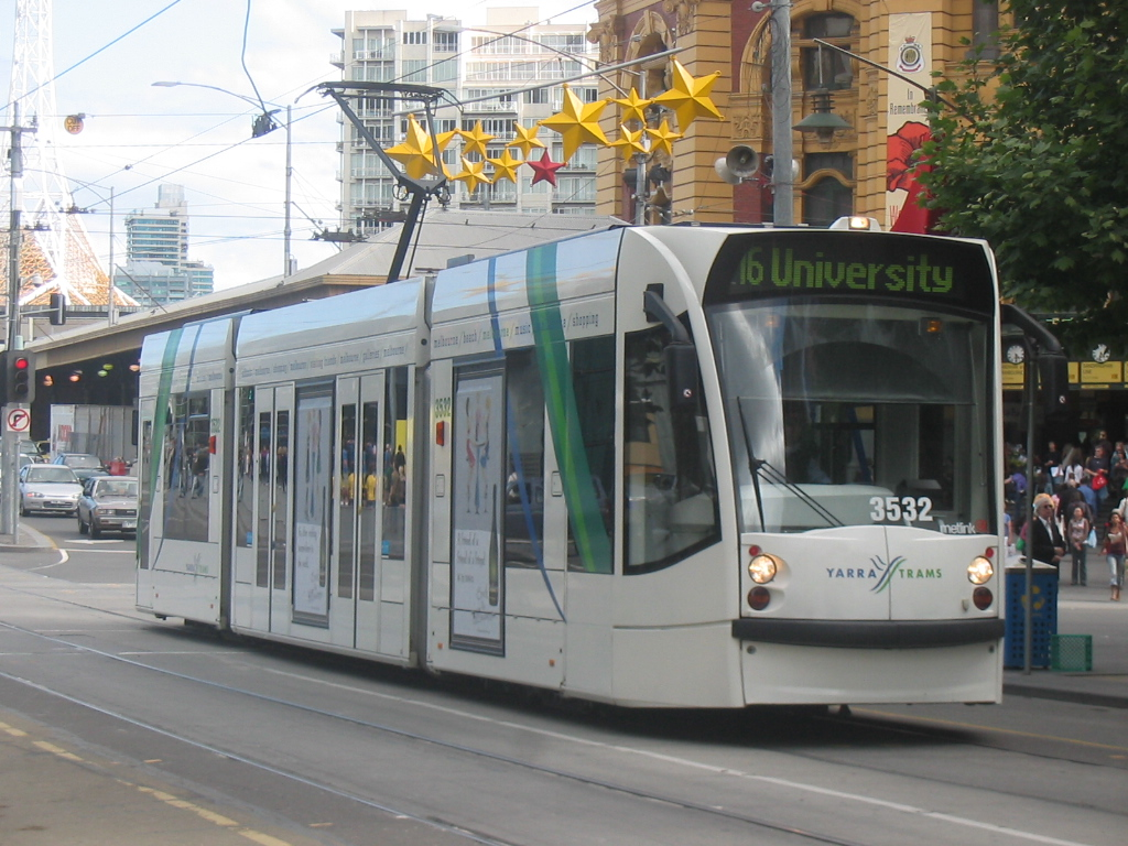 This image was copied from (Image:D1 class tram.jpg). The original description was: D1.3532 in Yarra Trams livery on Swanston Street. Picture taken by myself.